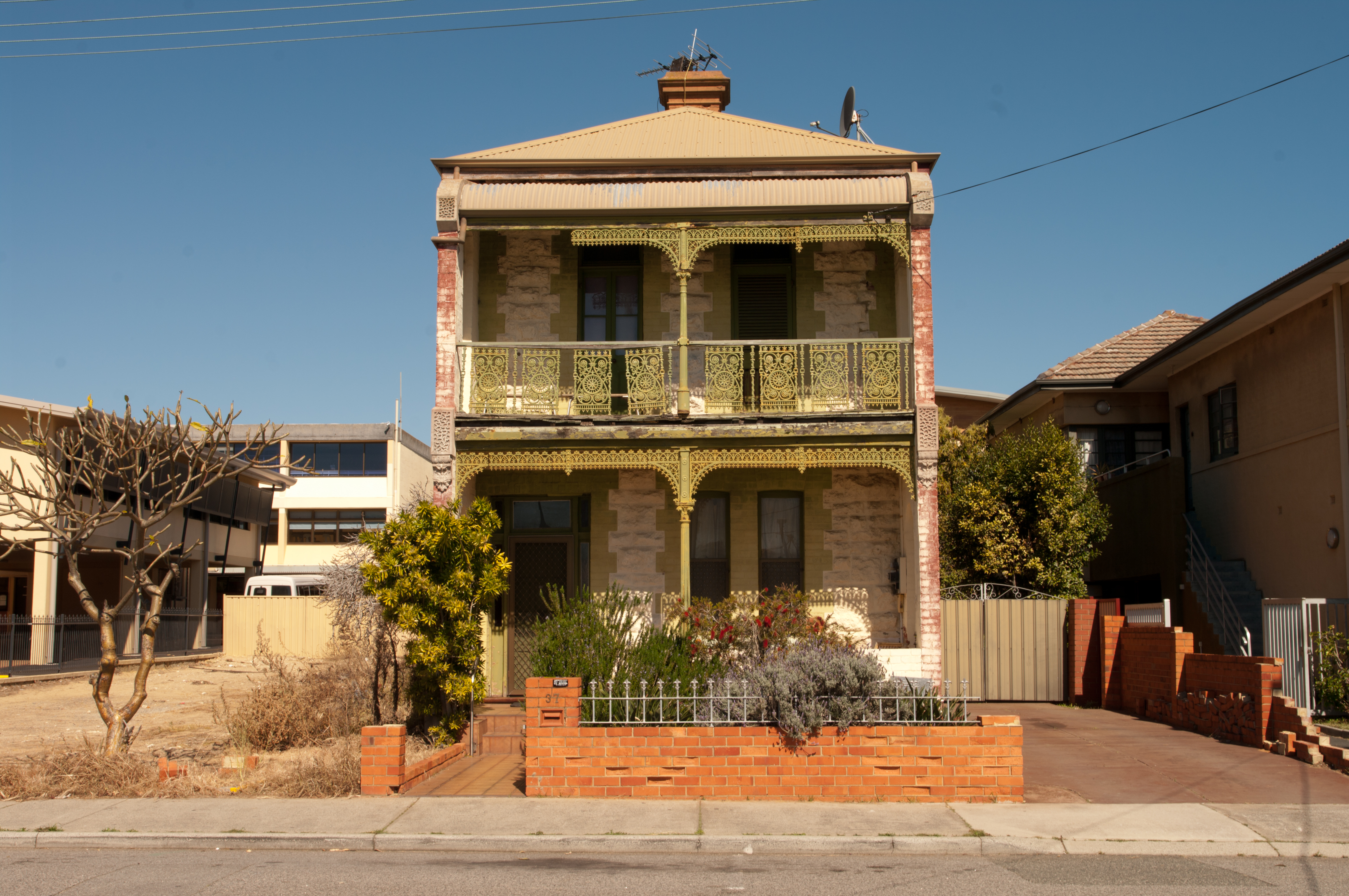 Terrace house Ellen Street